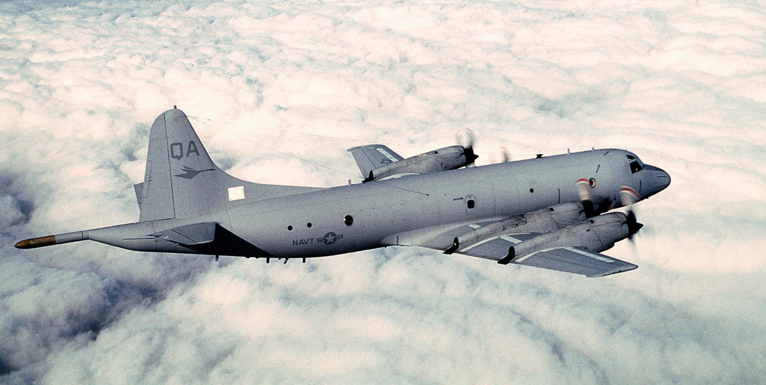 Lockheed P-3C Orion A high angle right-side view of a P-3C Orion in-flight over a thick cloud bank. The P-3 is from Patrol Squadron 22 (VP-22), on temporary duty in Japan, from NAS Barbers Pt, HI